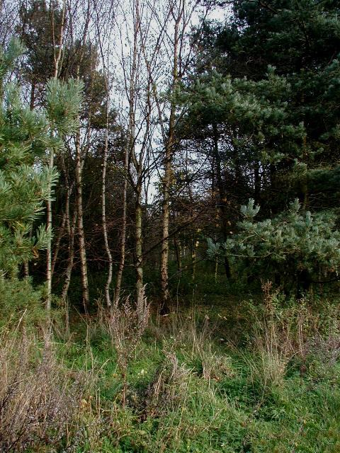 A reconstructed birch-pine forest as it appeared in Denmark at the older stoneage